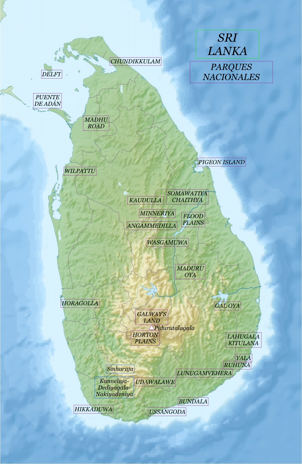 National Parks in Sri Lanka